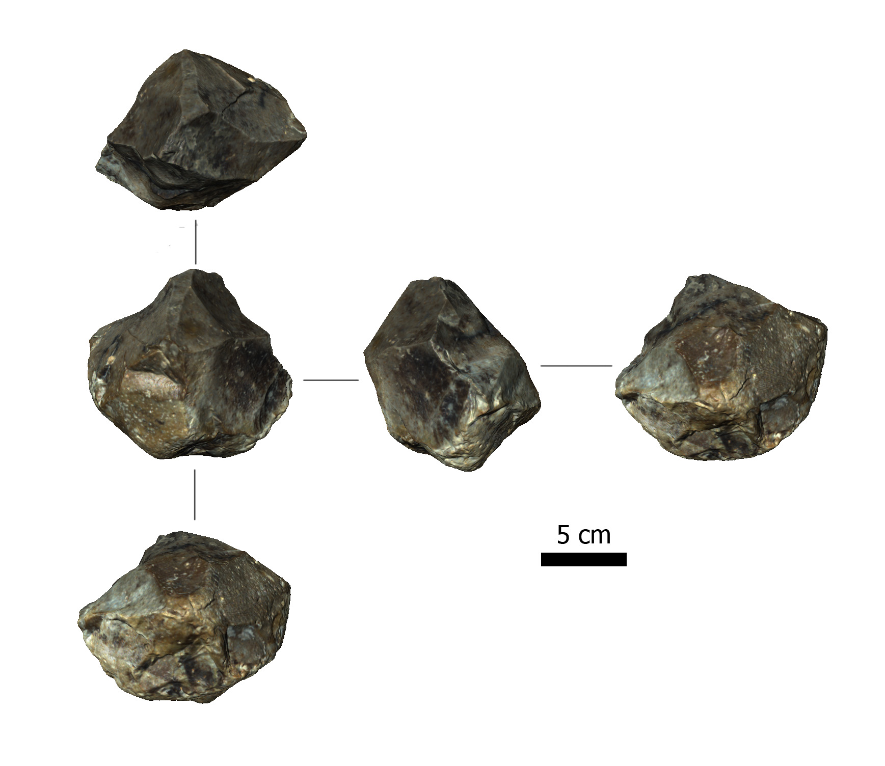 3D reconstruction of a core coming from Pirro Nord